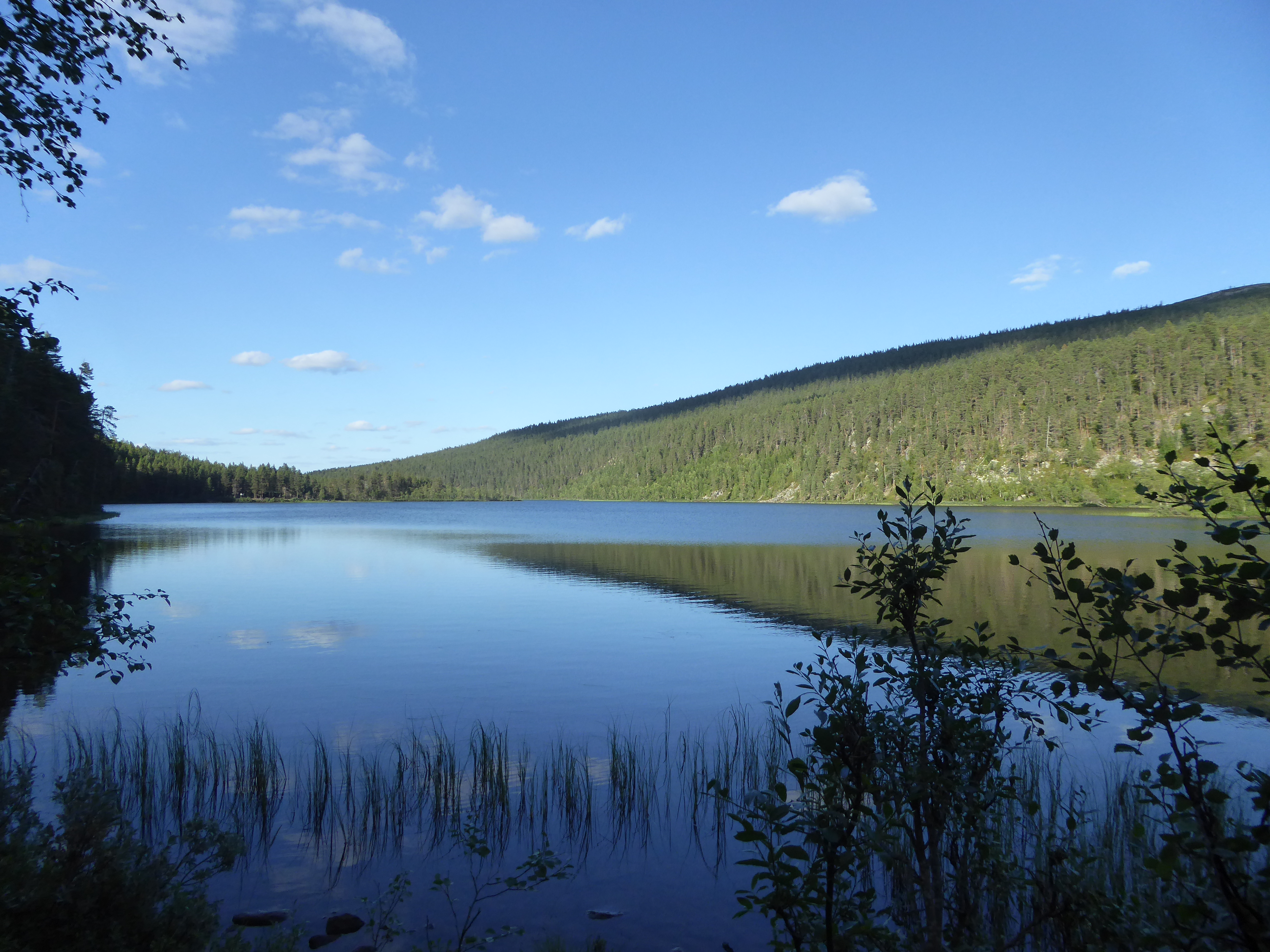 Lapland, Lemmenjoki National Park. Wikidata has entry Q938172 with data related to this item.